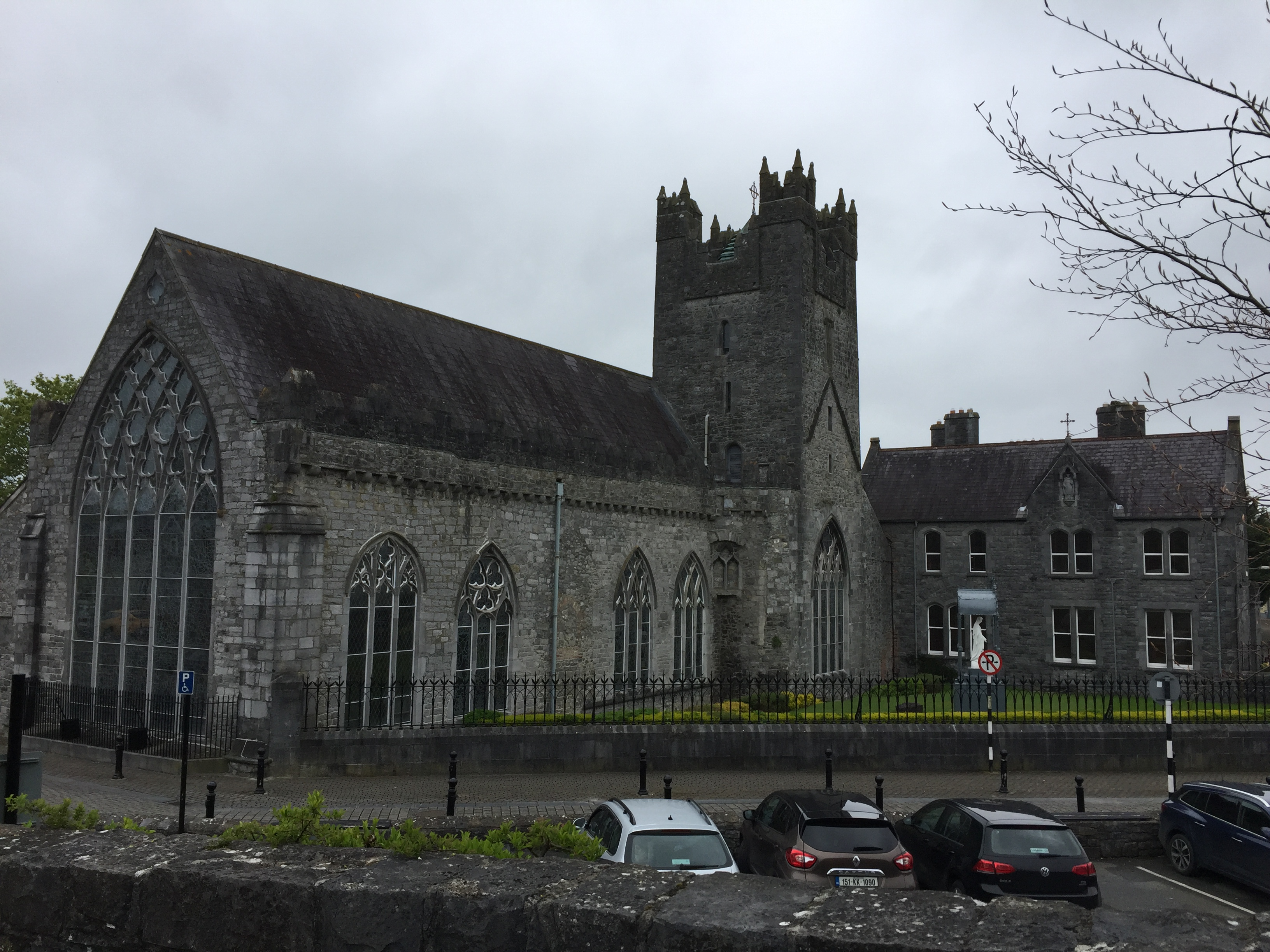 The Black Abbey in Kilkenny, Ireland in 2018